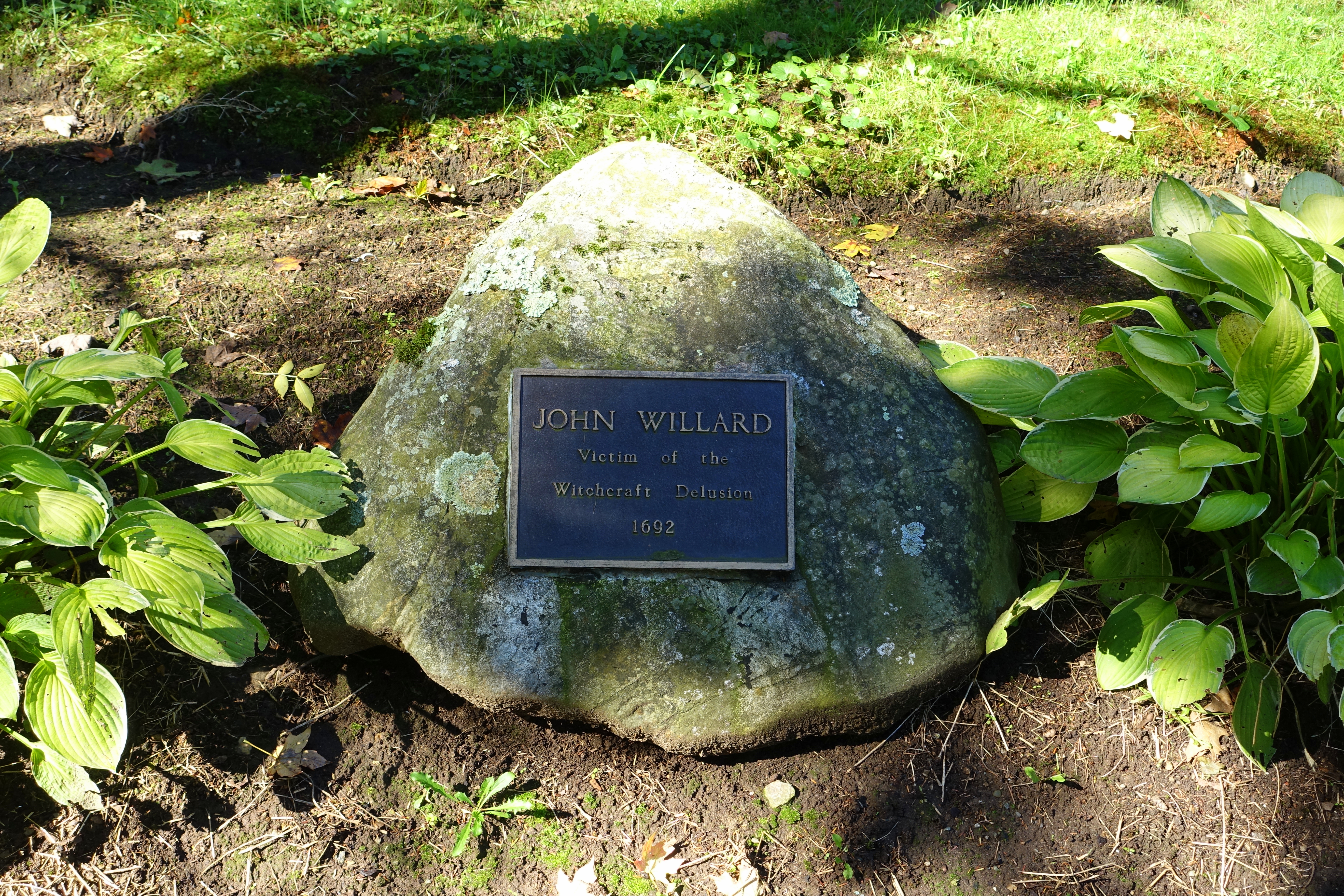 Memorial to John Willard, Victim of the Witchcraft Delusion, 1692 - Middleton, Massachusetts, USA.